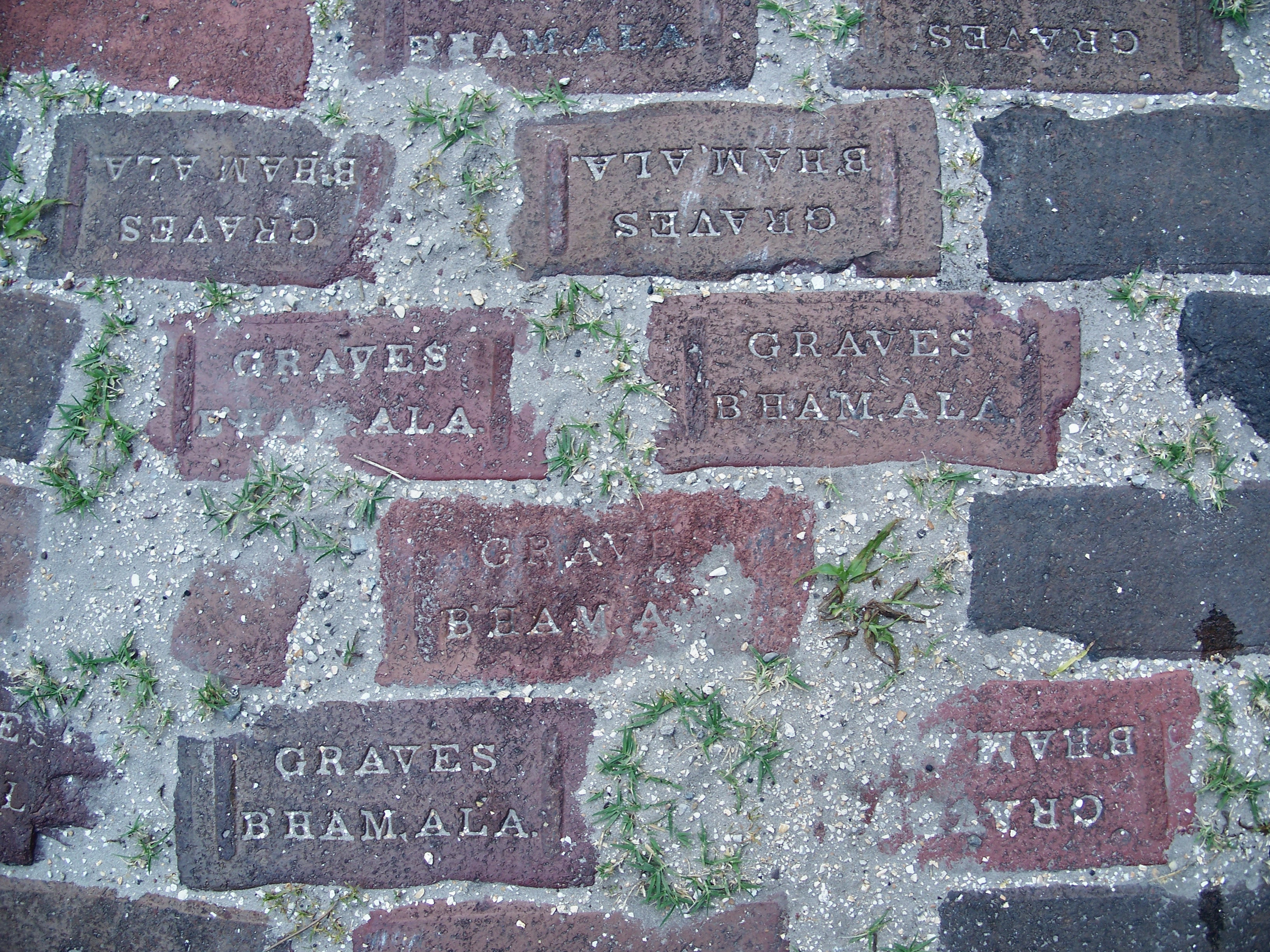 Part of the old brick Dixie Highway near Espanola, Florida